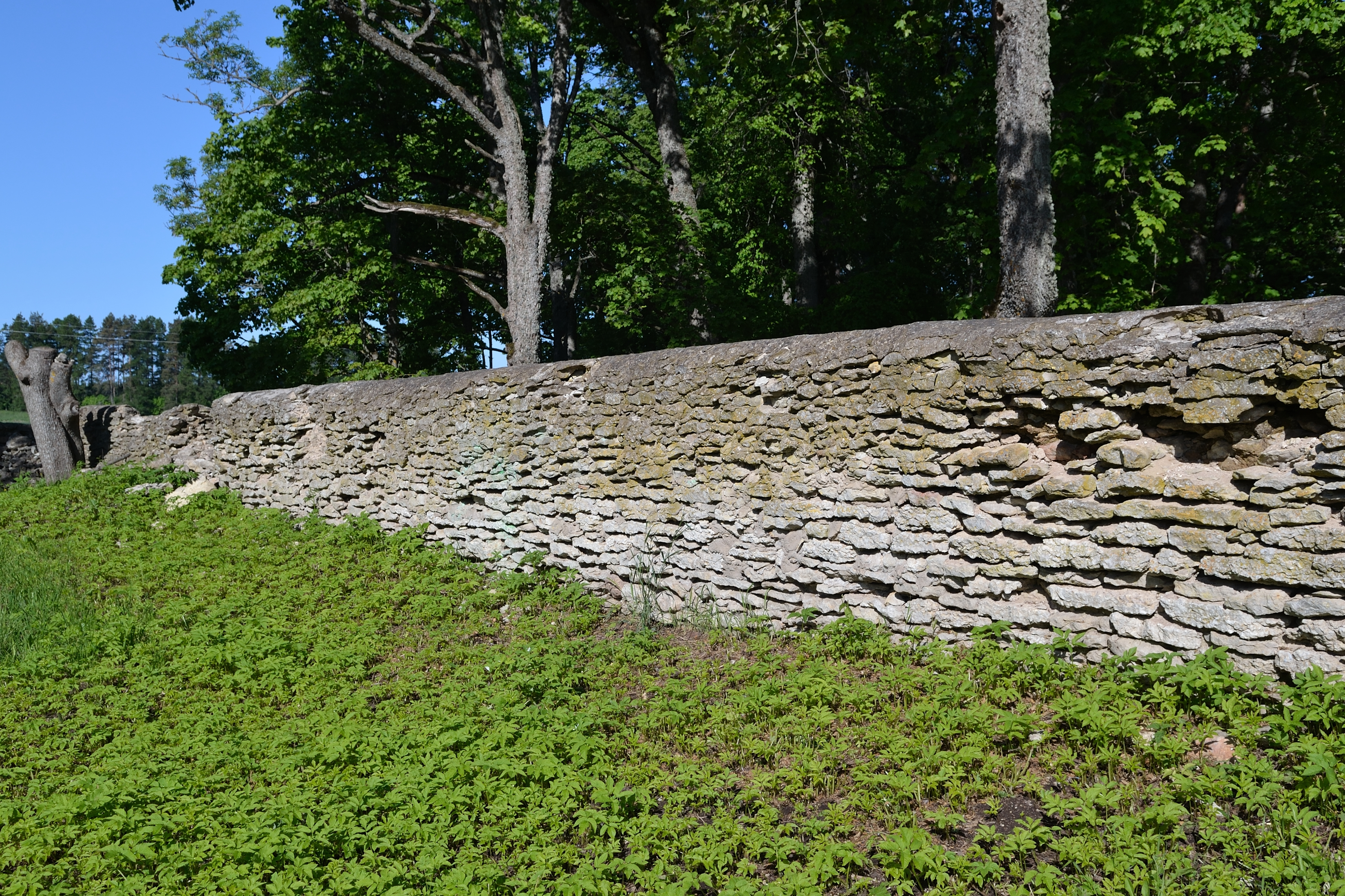 Udriku manor enclosure walls